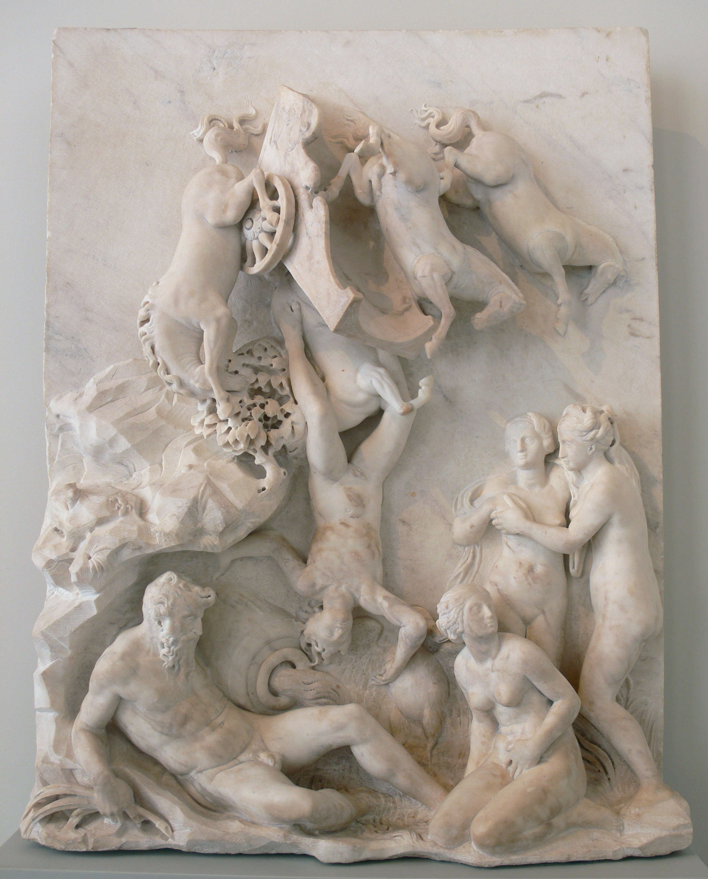 Simone Mosca, a.k.a. Moschino: The Fall of Phaeton, marble. Skulpturensammlung (inv. no. 282, acquired in 1842), Bode-Museum Berlin